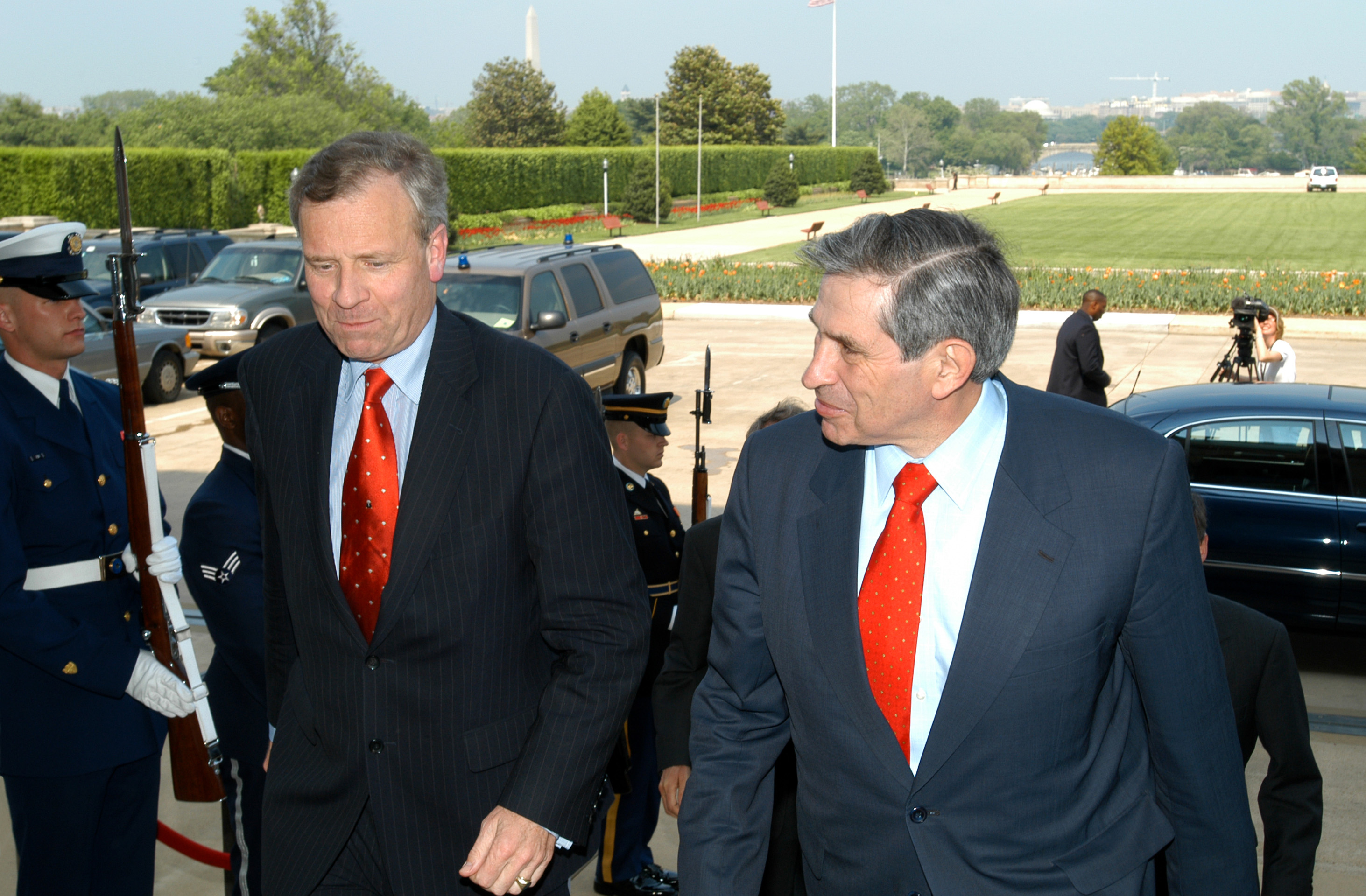 Deputy Secretary of Defense Paul Wolfowitz (right) escorts Netherlands's Minister of Foreign Affairs Jaap de Hoop Scheffer into the Pentagon on May 1, 2003. The two men will meet to discuss bilateral security issues of interest to both nations.